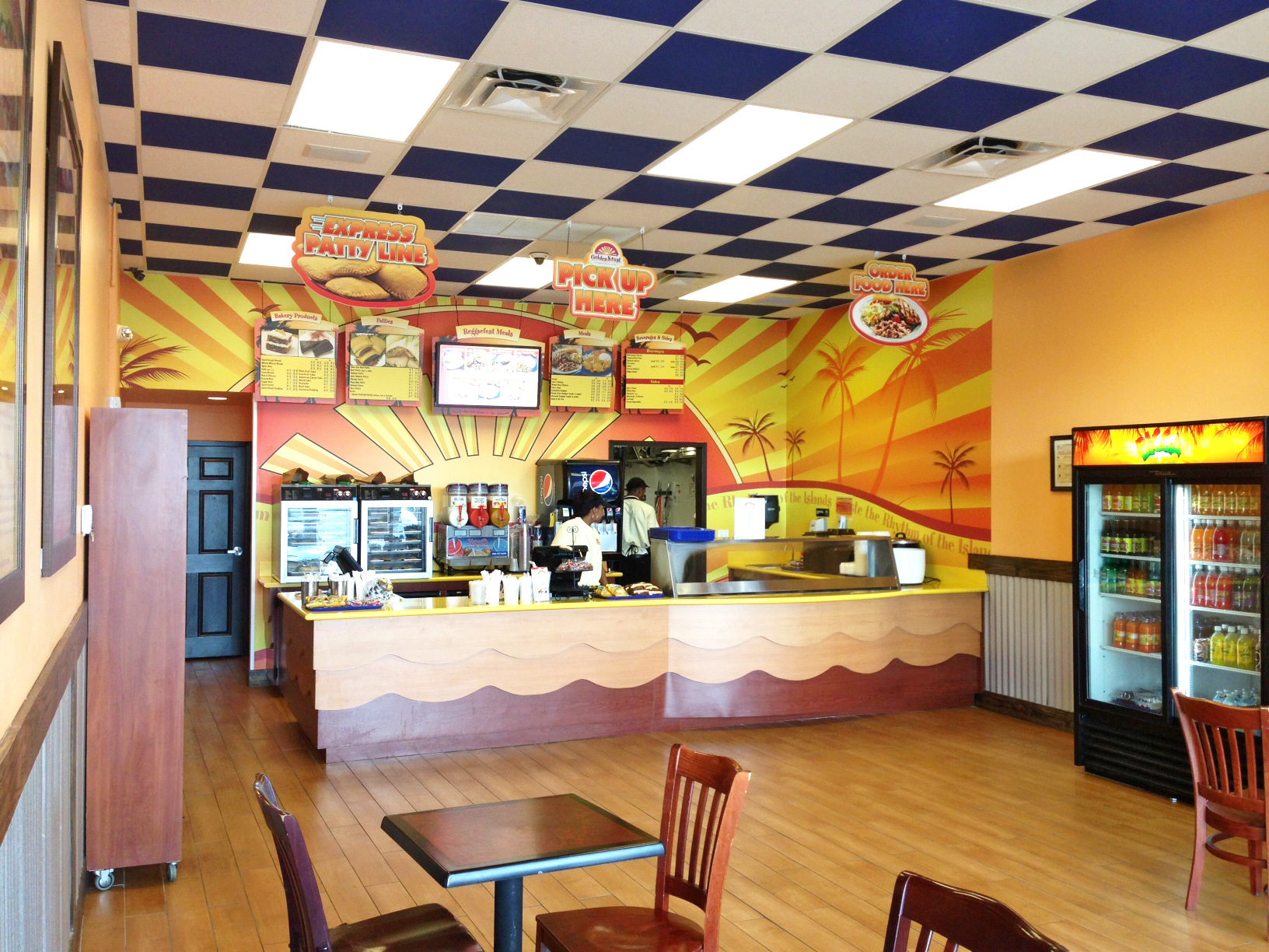 Golden Krust Restaurant Image